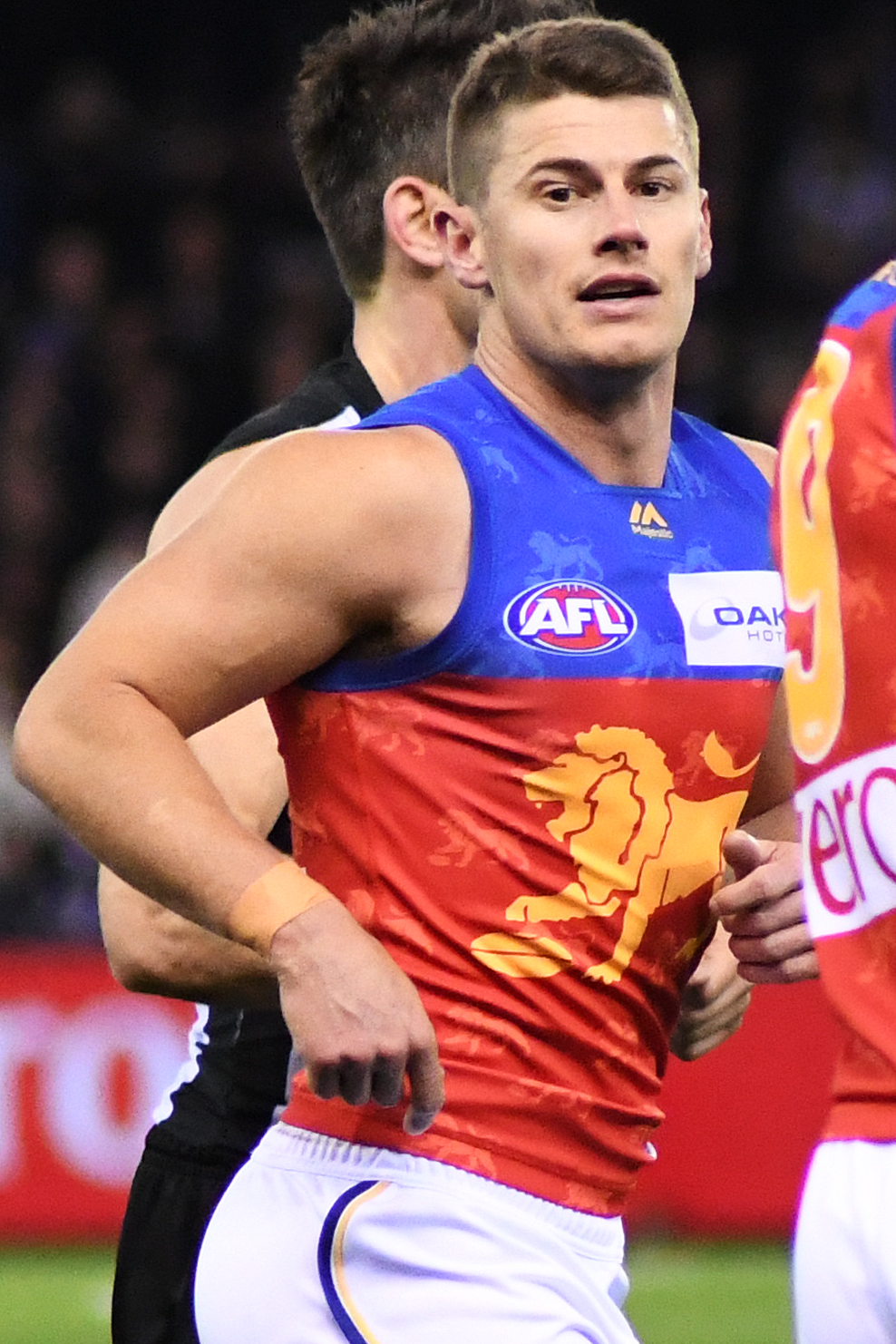 Dayne Zorko of Brisbane during the 2018 AFL round 21 match between Collingwood and Brisbane at Etihad Stadium on Saturday, 11 August 2018 in Melbourne, Victoria.